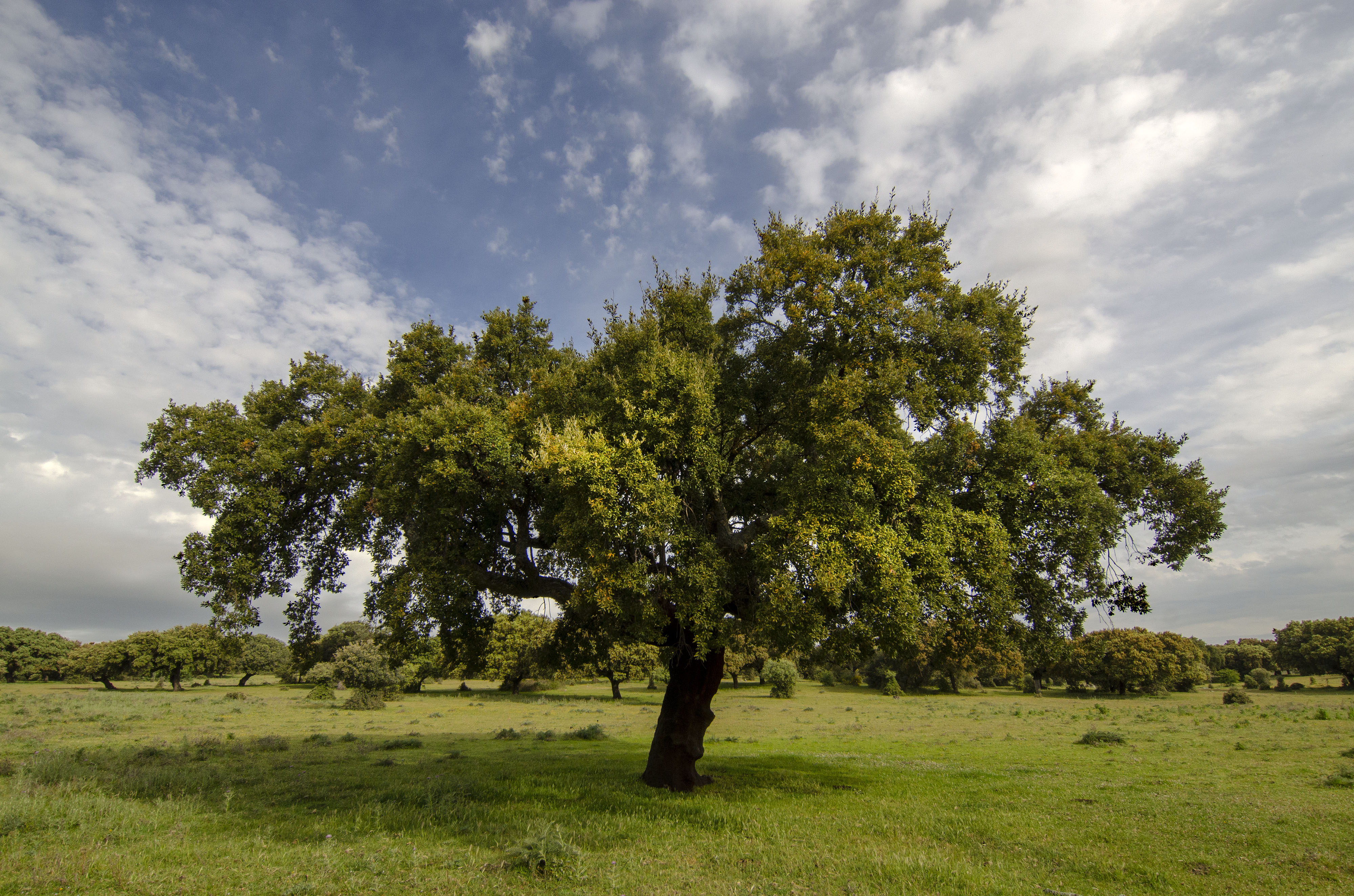 Dehesa de Montehermoso, Cáceres.